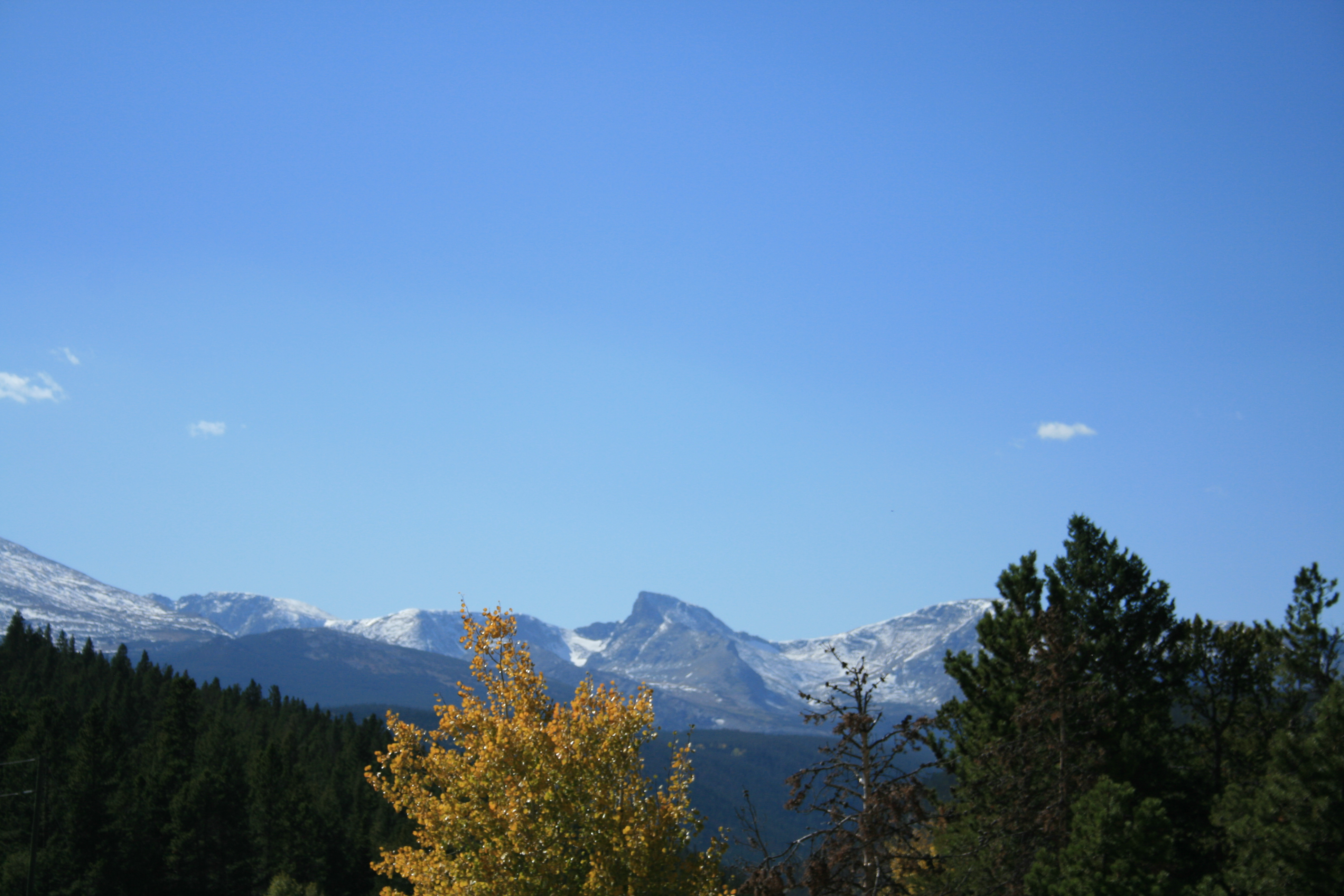 Mountains along the Peak to Peak Highway in Colorado. Ogallala Peak